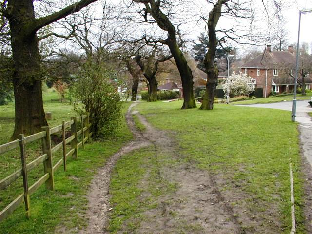 Pedestrian Shortcut into the Bestwood Lodge Woods